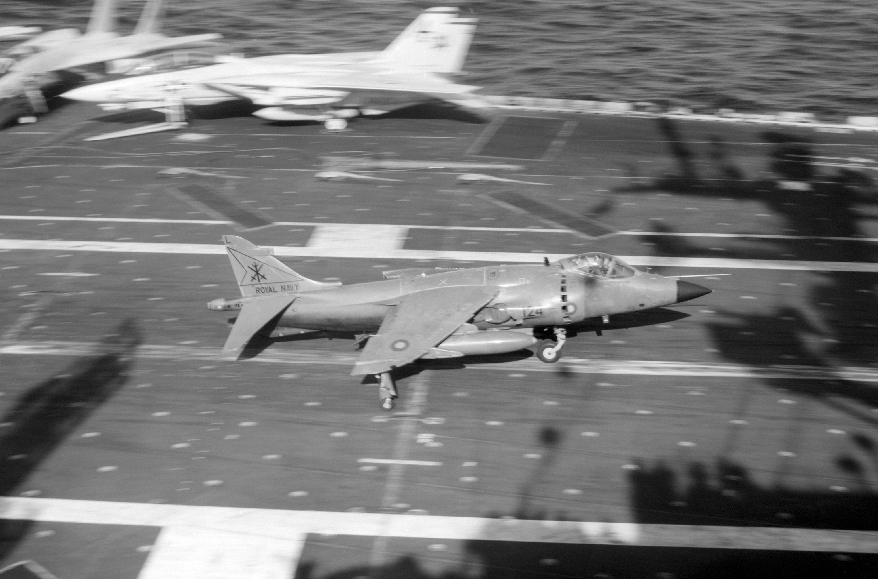 A British Royal Navy FRS.Mk 1 Sea Harrier aircraft prepares to land on the flight deck of the nuclear-powered aircraft carrier USS Dwight D. Eisenhower.